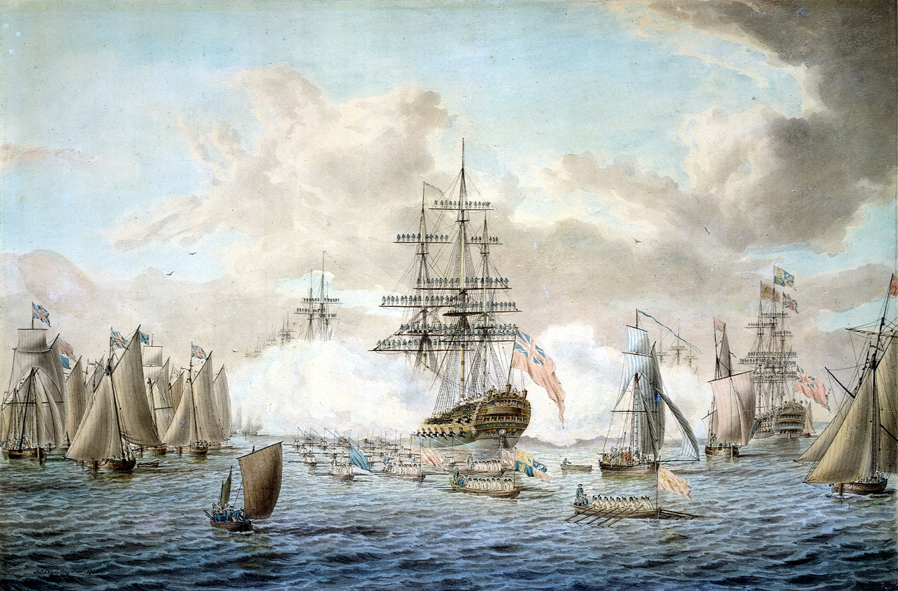 George III reviewing the Fleet at Spithead, 22 June 1773, depicting HMS 'Royal Oak; watercolour, signed and dated 1773. Royal barge can be seen in the centre foreground beyond which is the stern of the 'Royal Oak'. The three-decker in the right background is probably the 'Barfleur', which was also present.